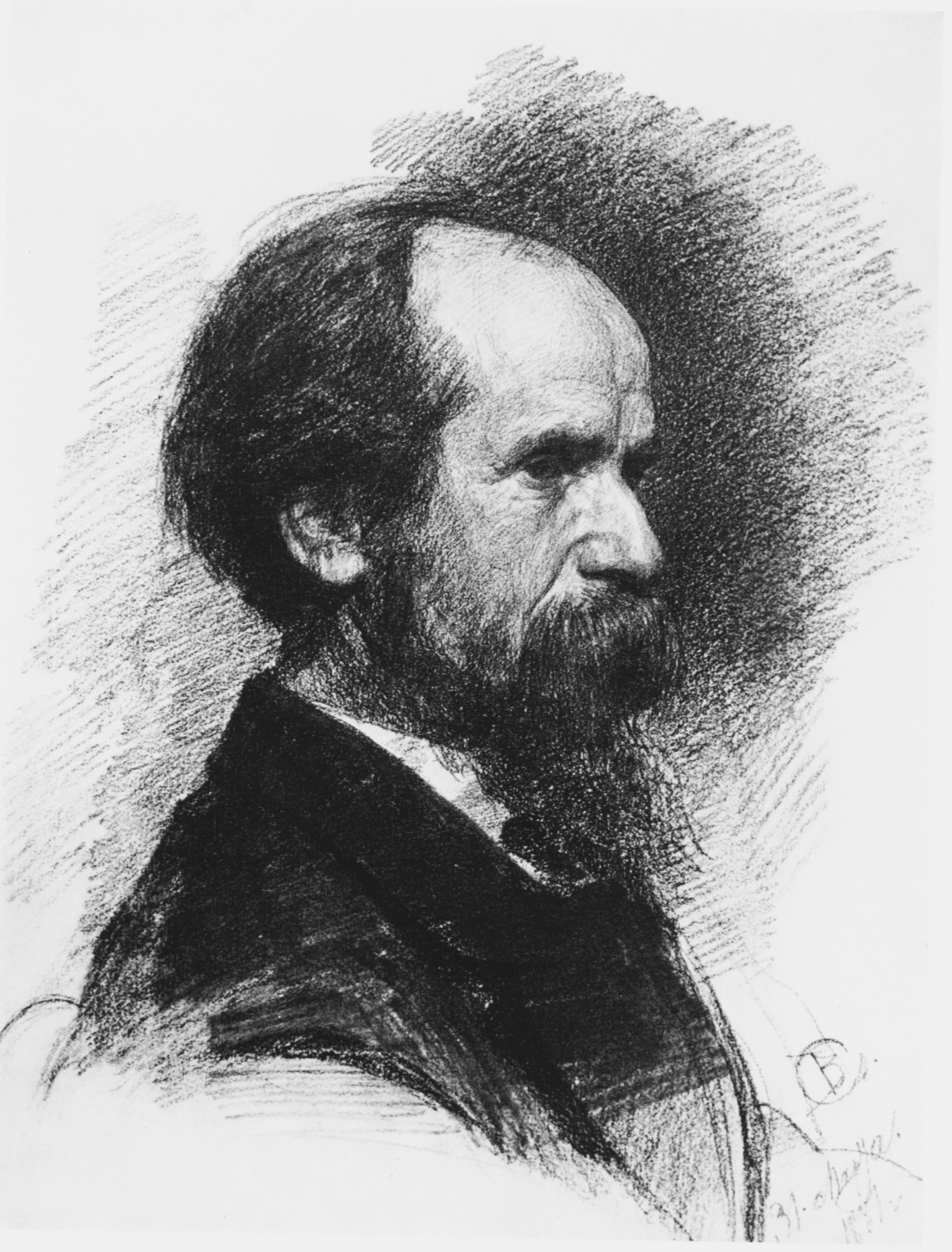 The portrait is a study artwork, it was performed during Valentin Serov’s first year at Academy of Arts, where the young artist attended the course of Pavel Chistyakov.Sometime in March 1881 Chistyakov settled on the place of a sitter and told pupils to draw his portrait in pencil. Several portraits were drawn the drawing by Valentin Serov was among them. It was positively appreciated contemporaries said that Serov managed to achieve the true, practically utmost likeness[1].